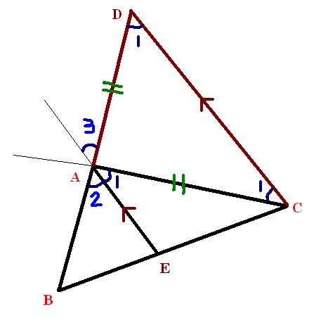 Proof of Angle bisector theorem.